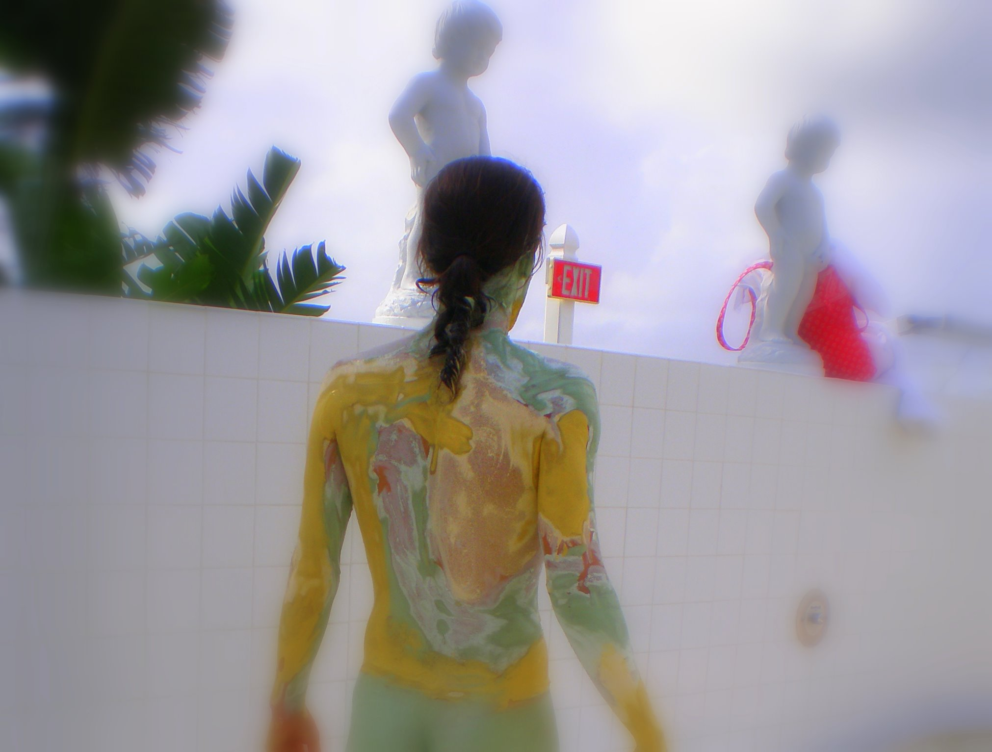 Mud bathing at the Standard Spa in Miami Beach, FL